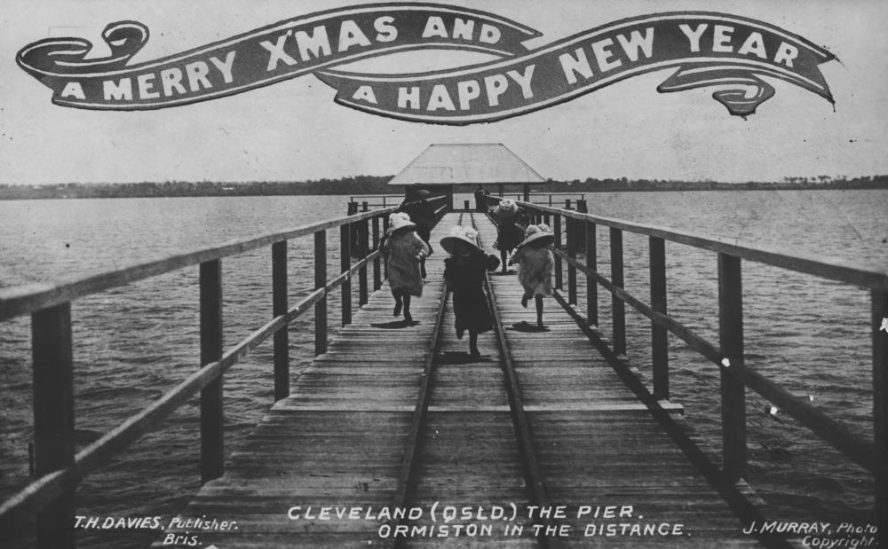 Christmas postcard featuring Cleveland pier, ca. 1908. Cleveland Pier was built in 1887. This photograph is taken looking towards Ormiston. Cleveland is in the Redland Shire, Queensland, Australia.